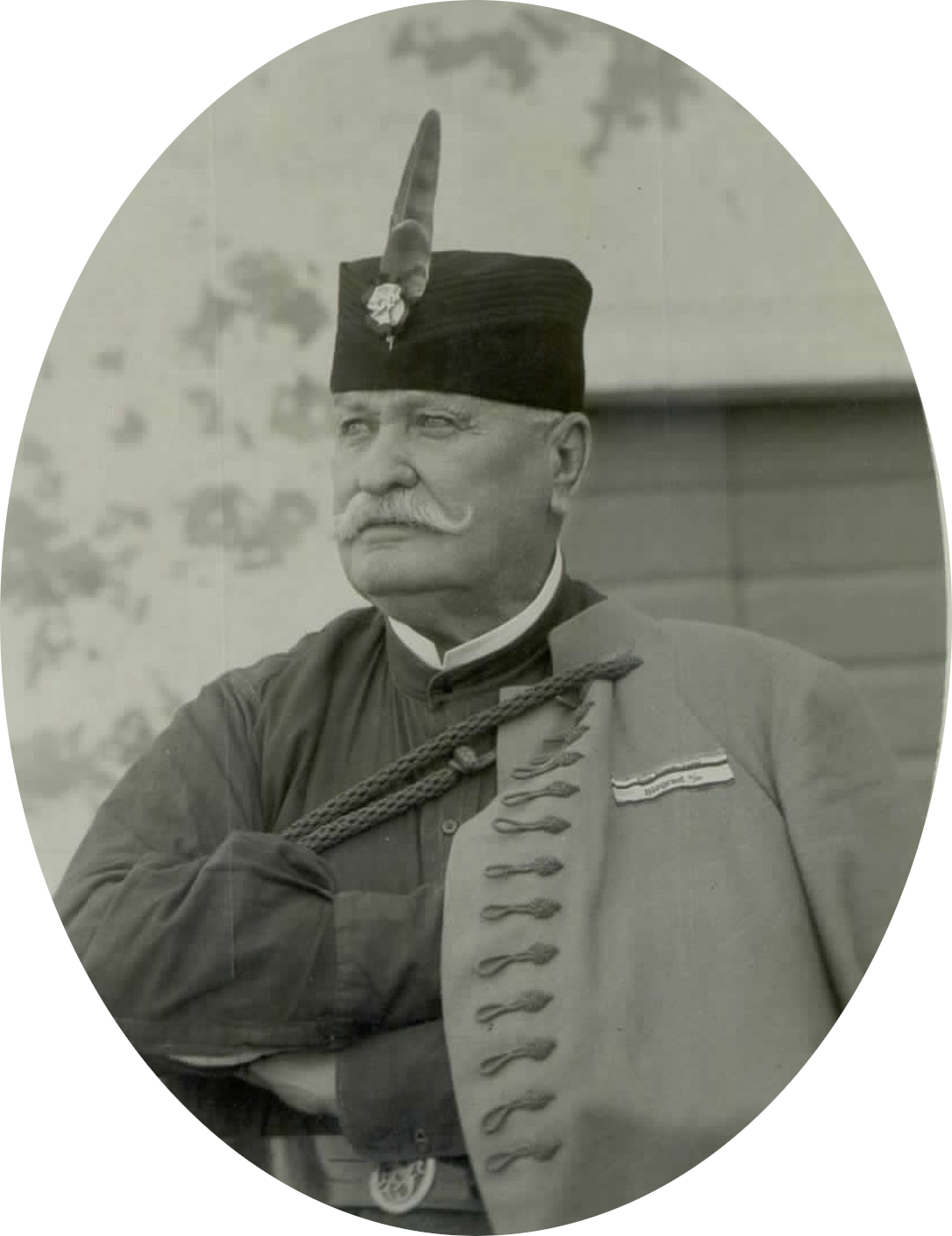 Alojzij Štrekelj (1857-1939)